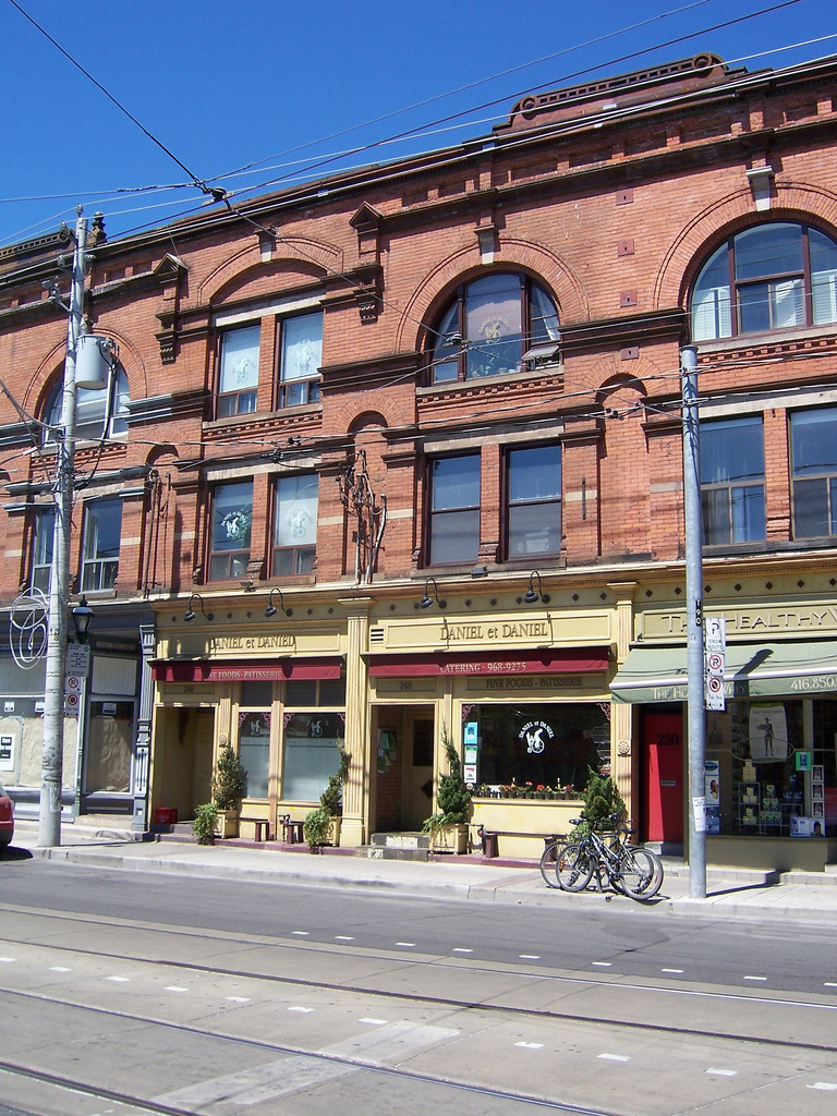 Carlton Street in Cabbagetown, Toronto, Canada